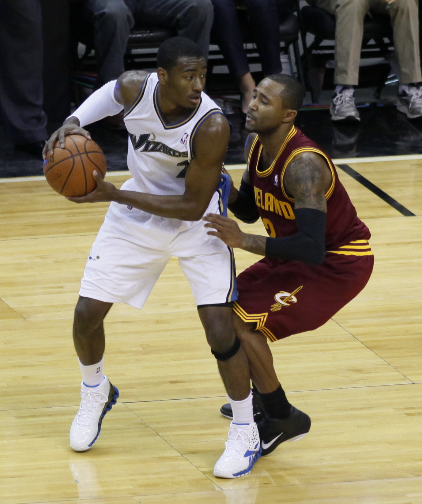 Washington Wizards v/s Cleveland Cavaliers November 6, 2010